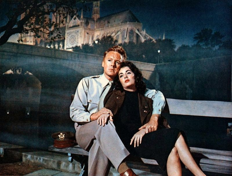 Van Johnson & Elizabeth Taylor in The Last Time I Saw Paris - cropped screenshot